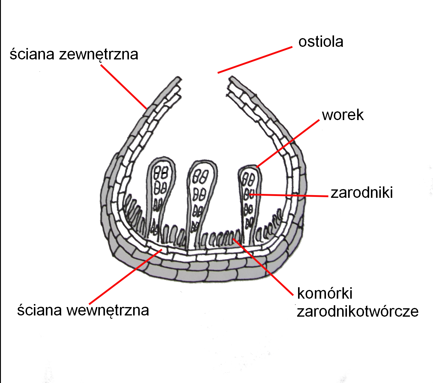 Pseudothecium Didymella bryoniae (schemat)